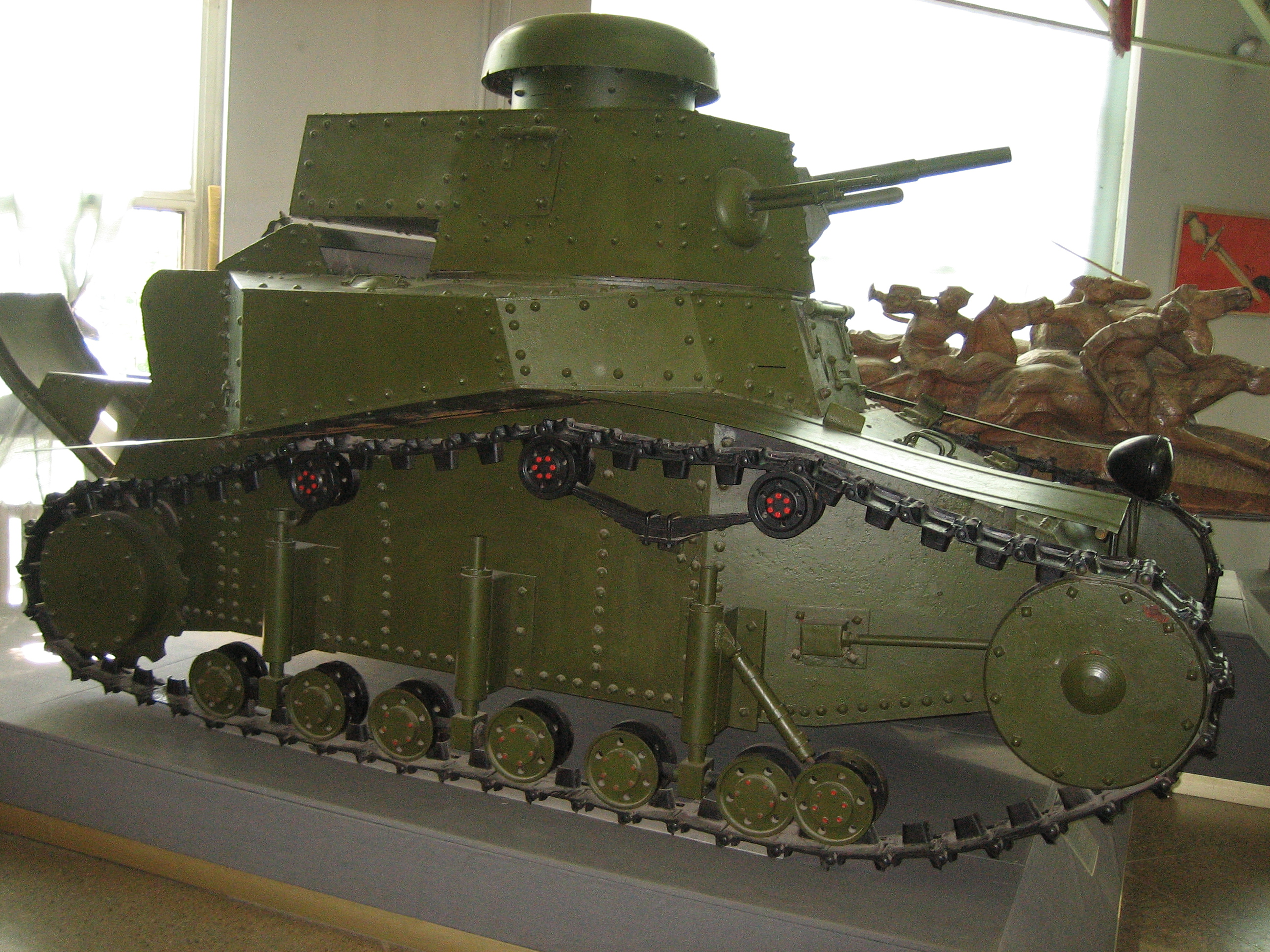 Soviet tank T-18, displayed in Moscow Military Museum. Photo taken on 19 July, 2007. Source: Photo by me, User:Saiga20K.